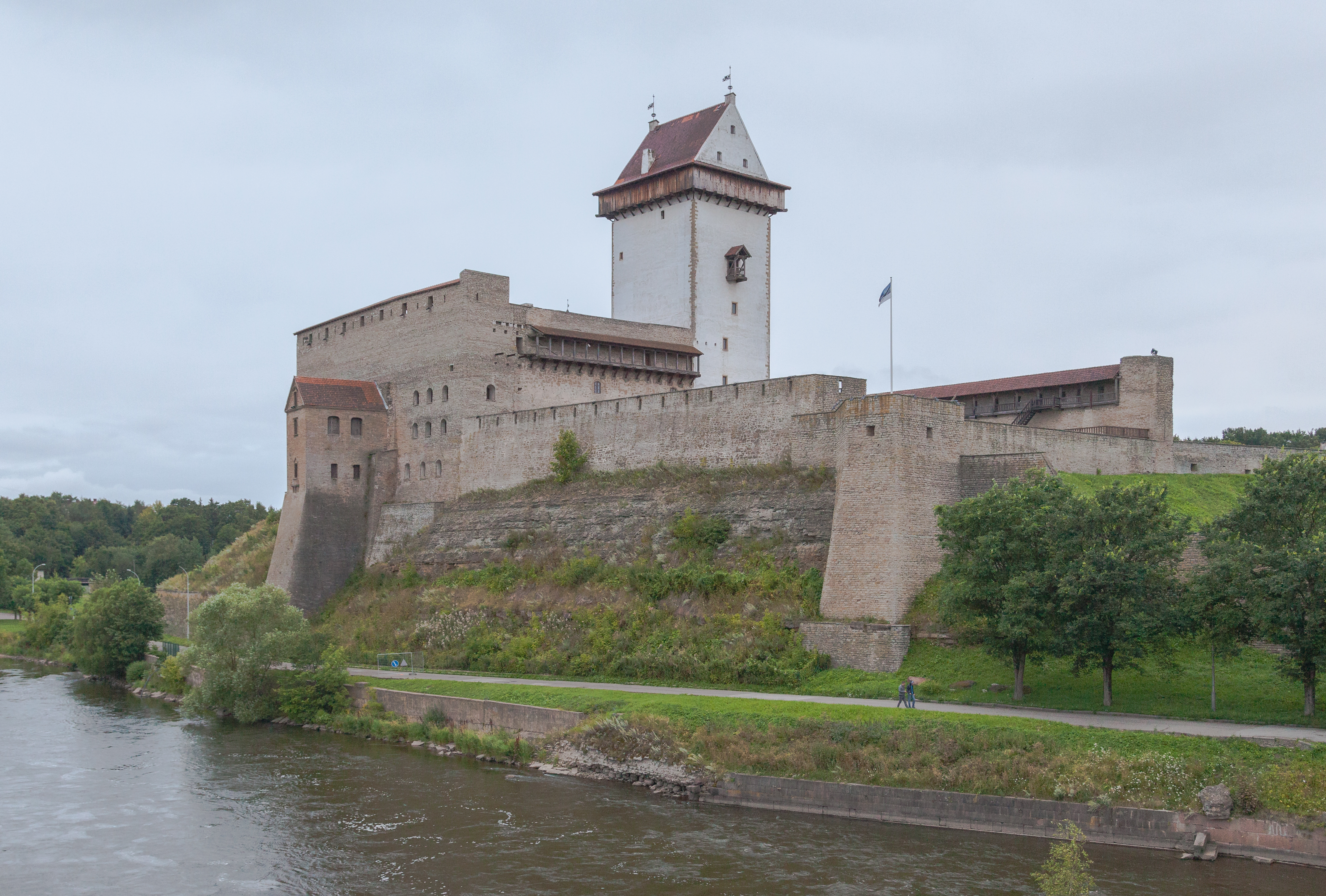 Narva Castle, Tallinn, Estonia